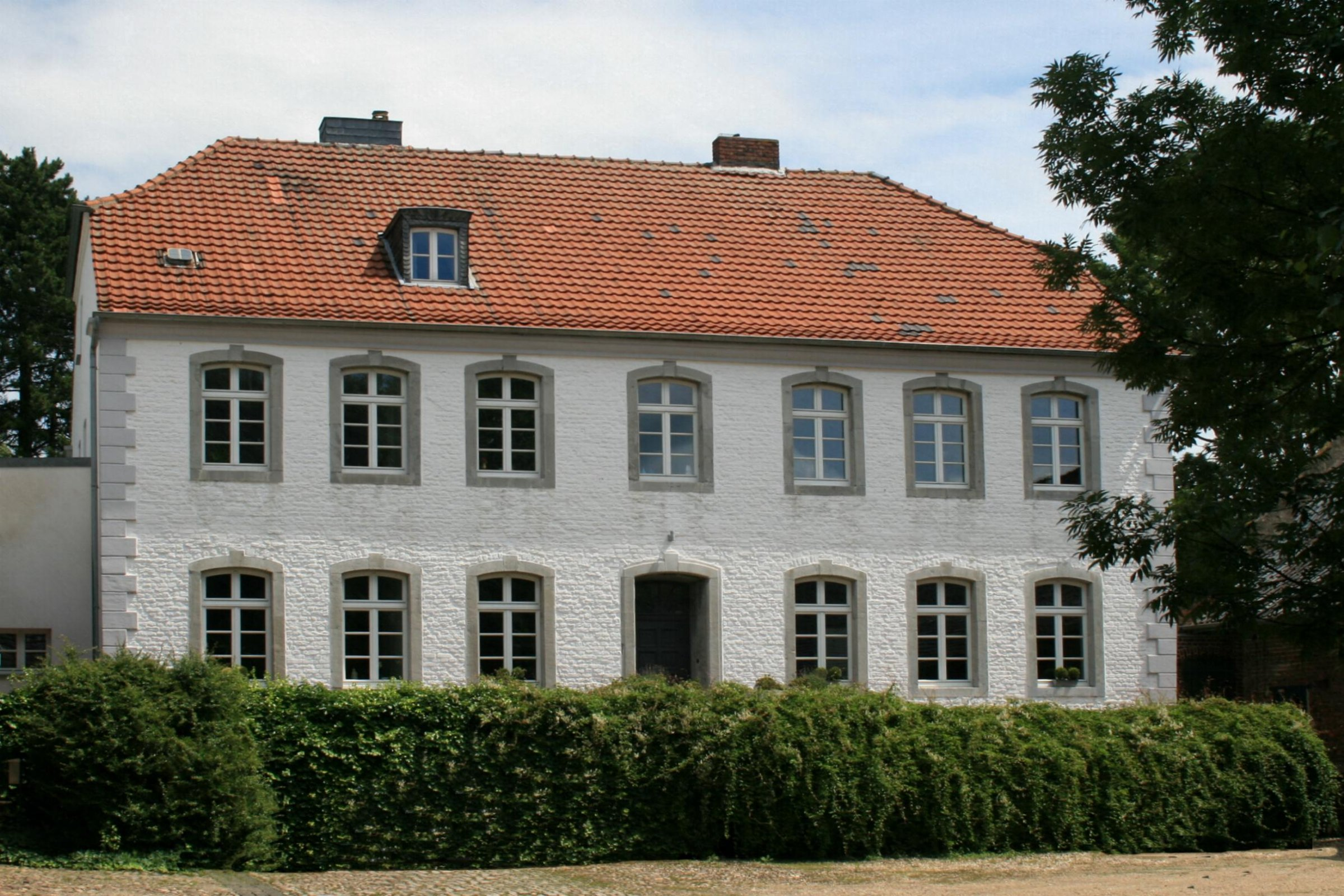 Cultural heritage monument No. 93 in Titz